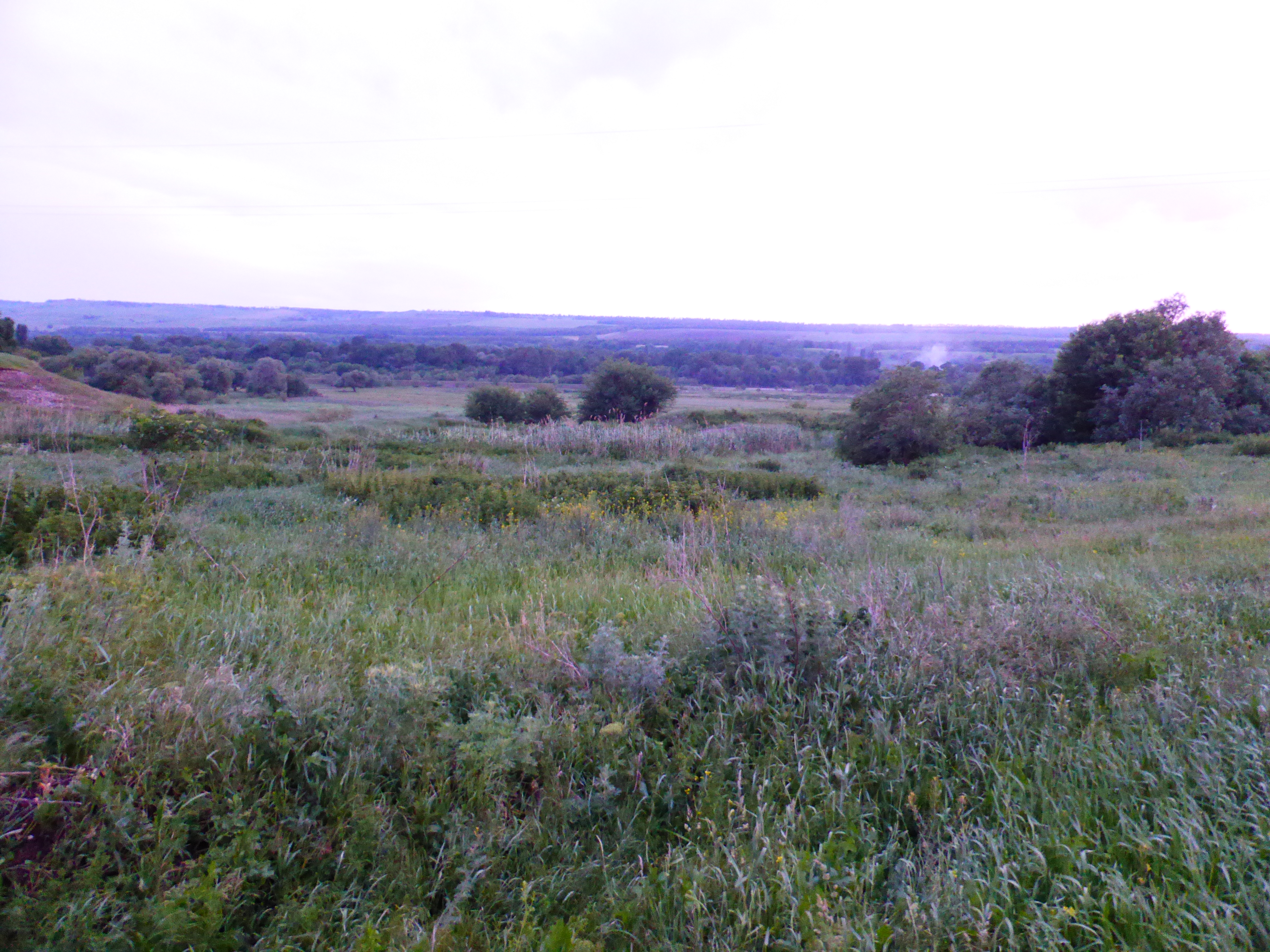 Kizil-Togai floodplain forest